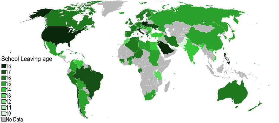 World map showing countries by their school leaving age.